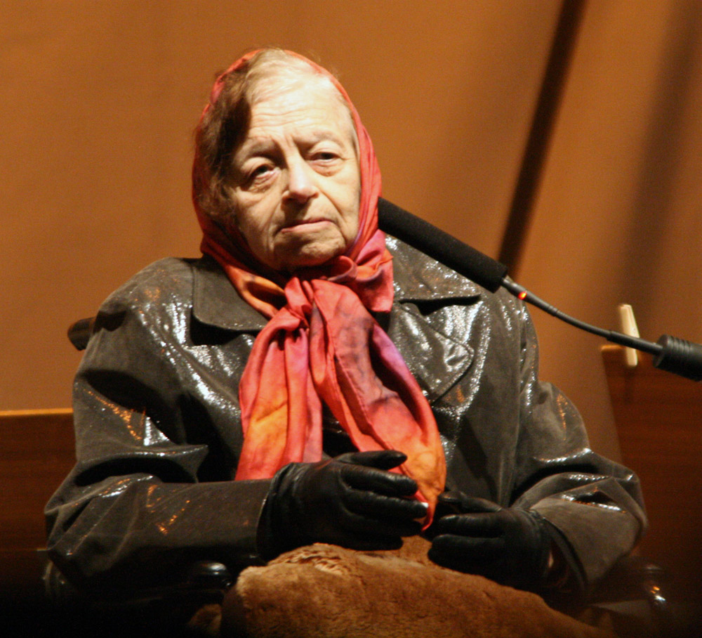 Historian Erika Weinzierl during her speech at the "Nacht des Schweigens" ("Night of Silence") at the Heldenplatz in Vienna. In remembrance of the "Anschluss", the annexion of Austria by Nazi Germany 70 years ago, 80.000 candles were lit for the Austrian victims murdered in the years from 1938 to 1945 and their names were projected on four screens during the whole night.